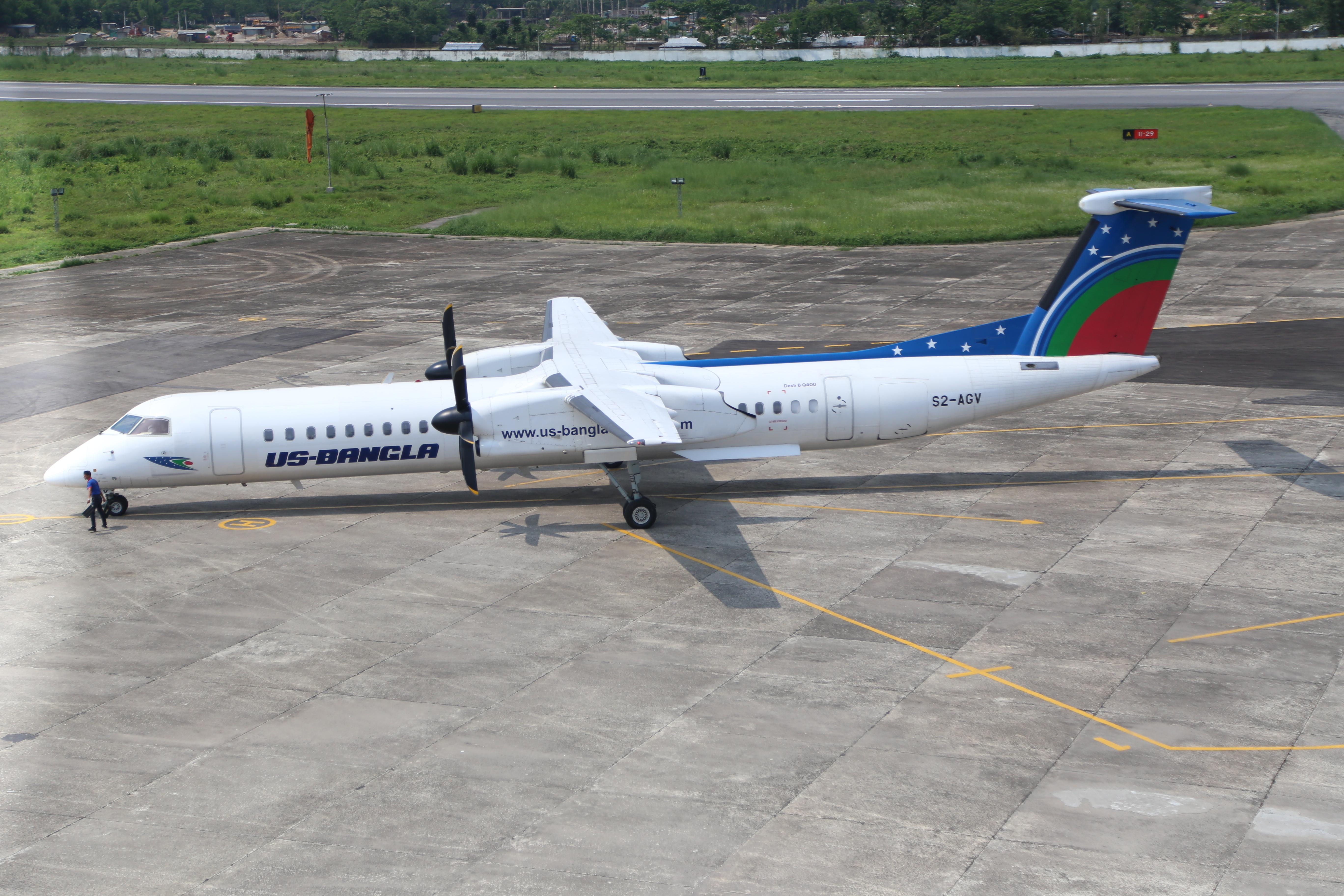 wiki photo